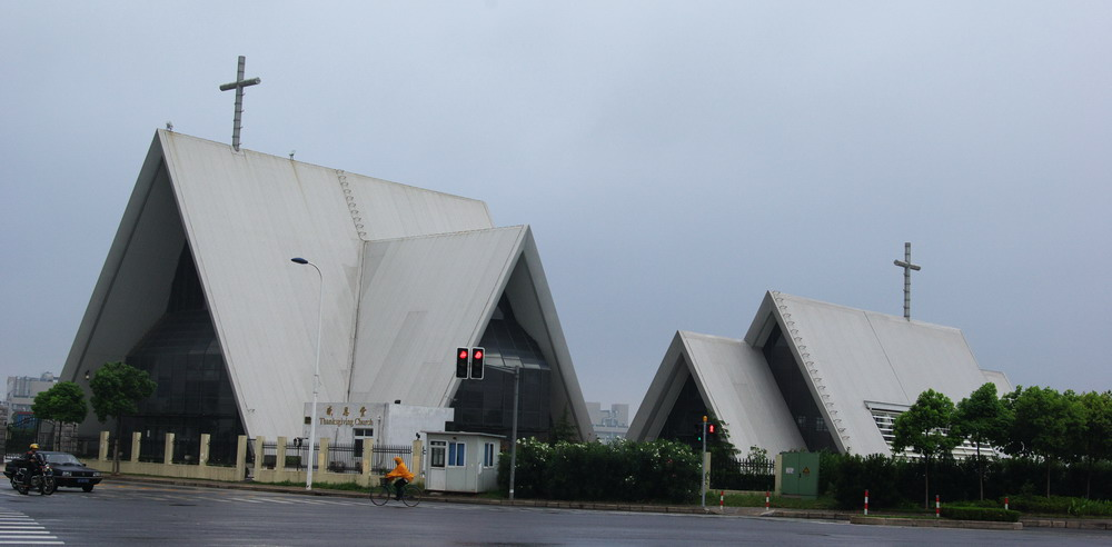 Tanksgiving Church in Zhangjiang Town, Pudong, Shanghai